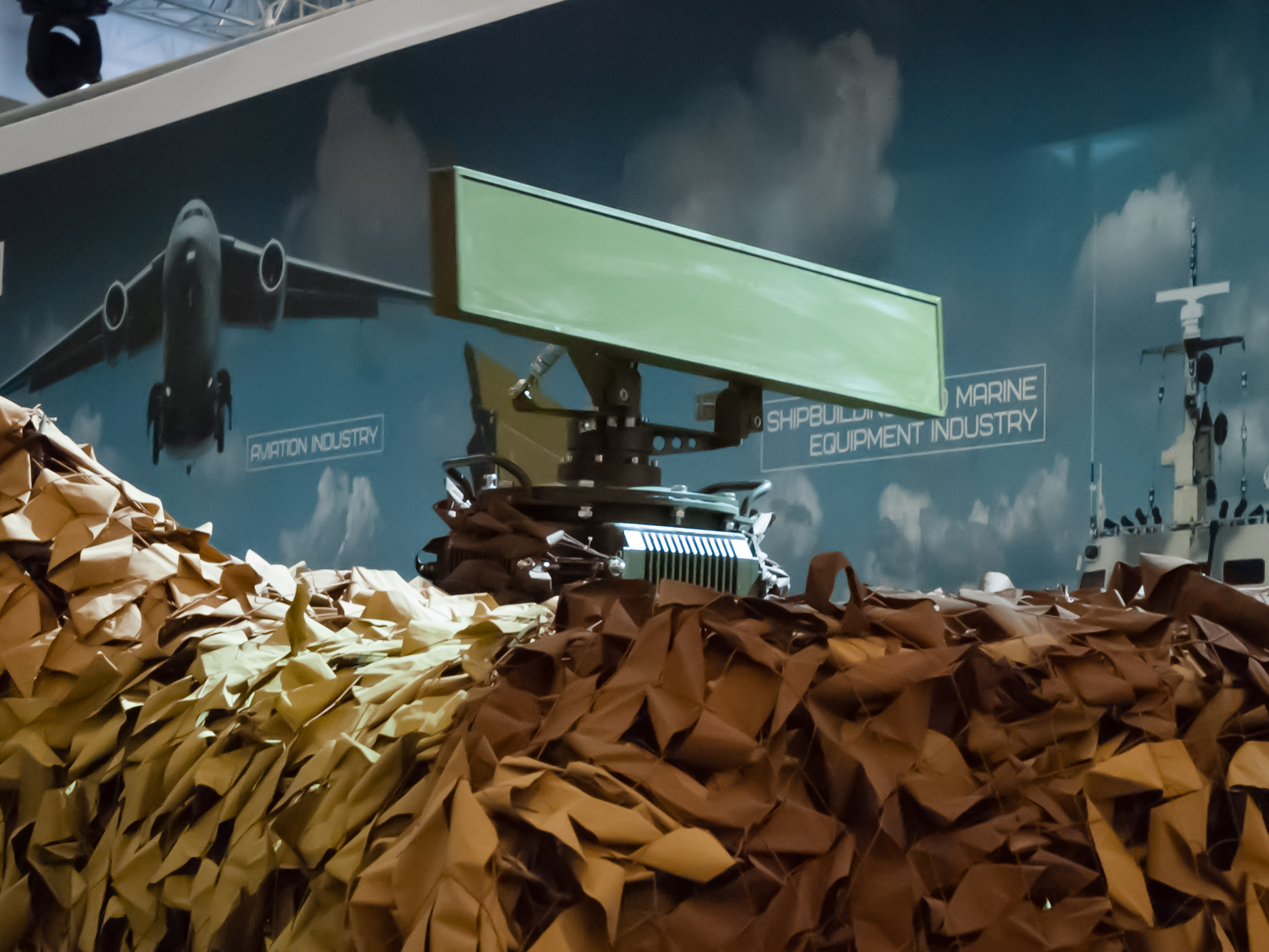 H1M Oko anti-UAV radar by 'Progres', Ukraine